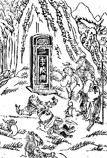 A depiction of a famous story from Generals of the Yang Family: Yang Ye committing suicide at Li Ling's tomb